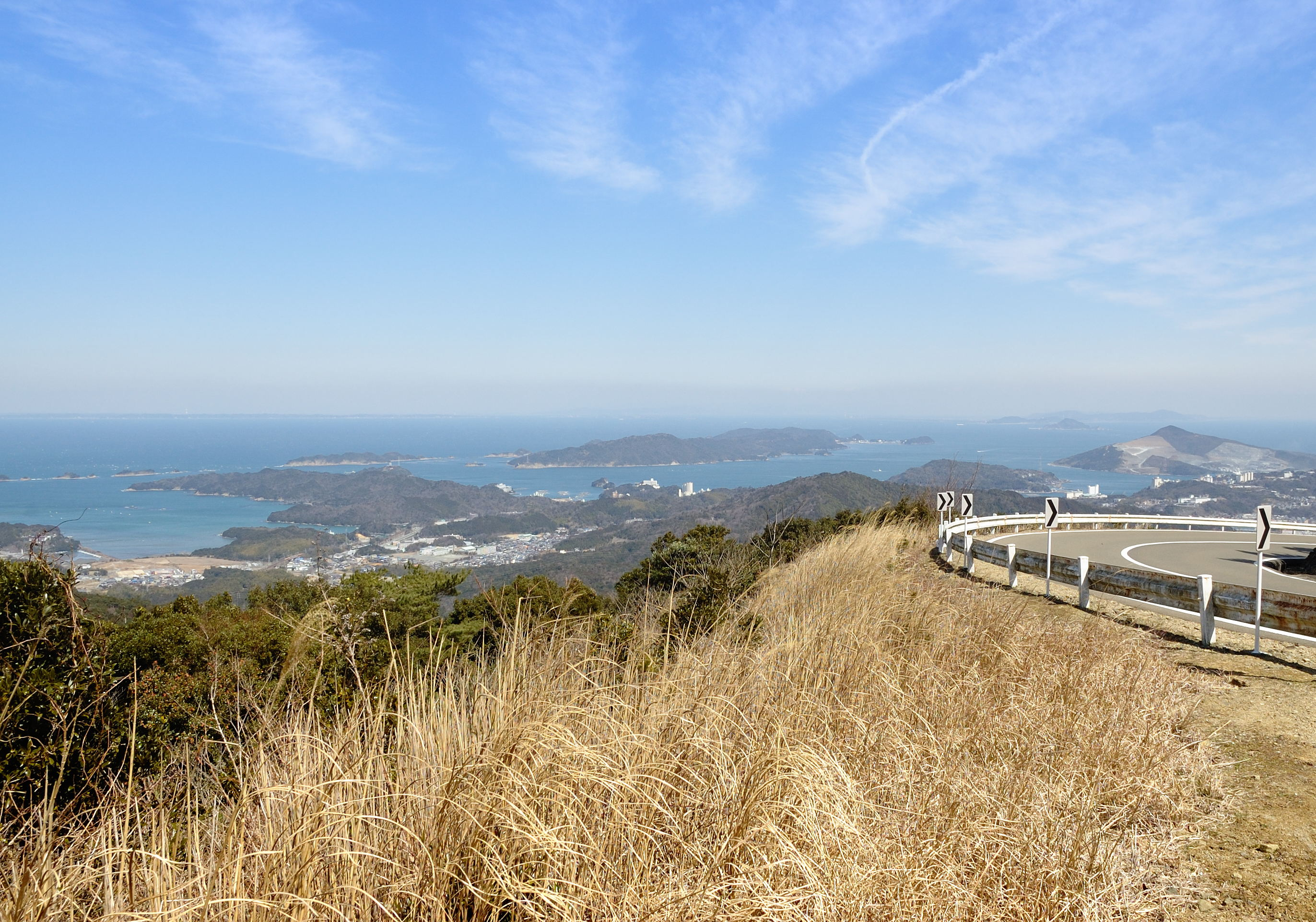 Iseshima Skyline, Toba City, Mie Prefecture, Japan.